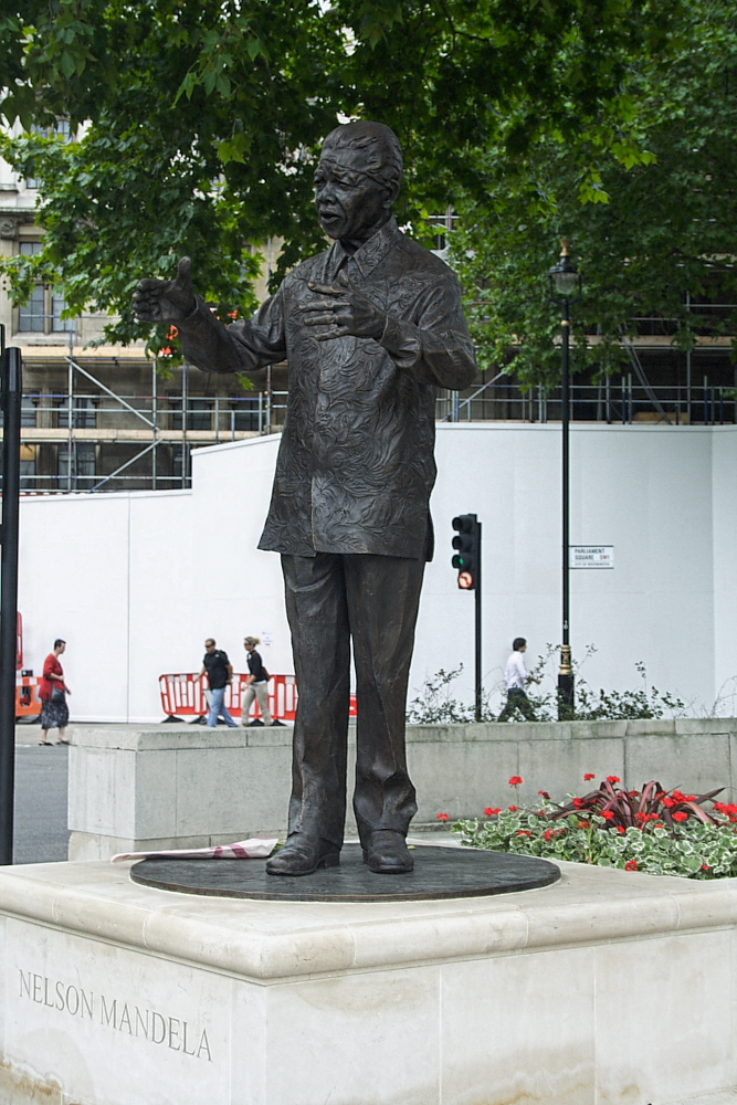 The statue of Nelson Mandela in Parliament Square, London. Sculptor: Ian Walters